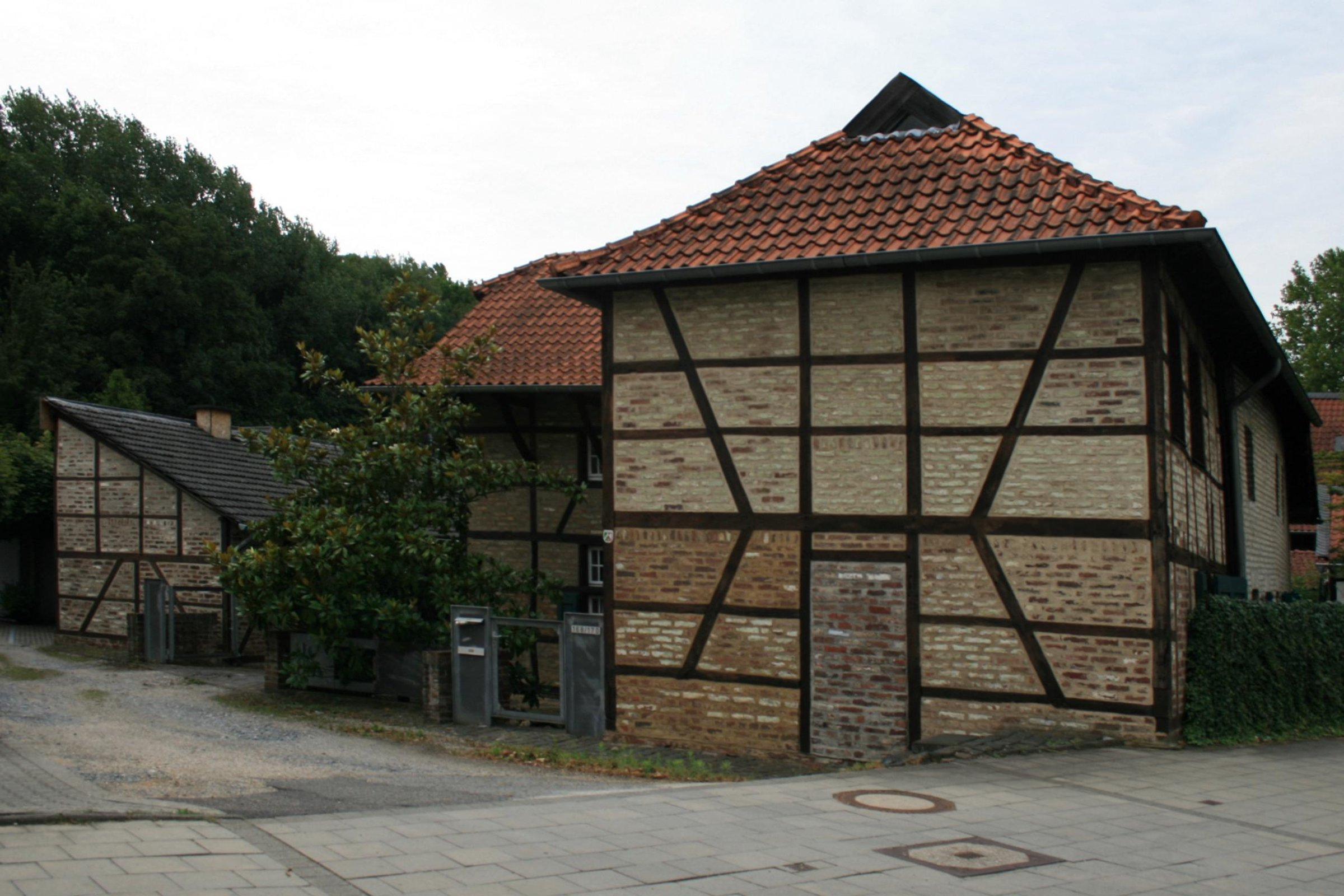 Cultural heritage monument No. F 004 in Mönchengladbach